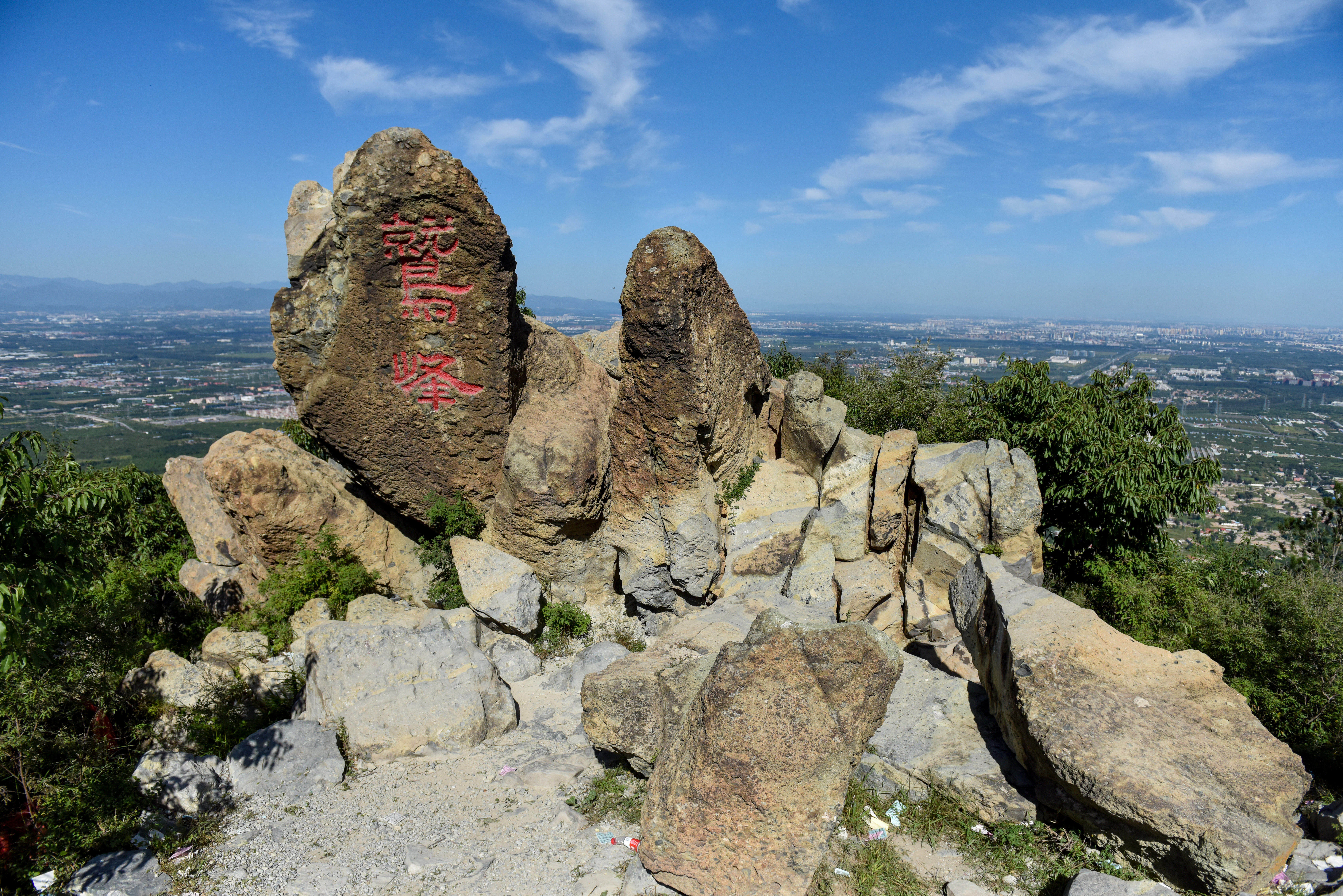 Got it after four years!